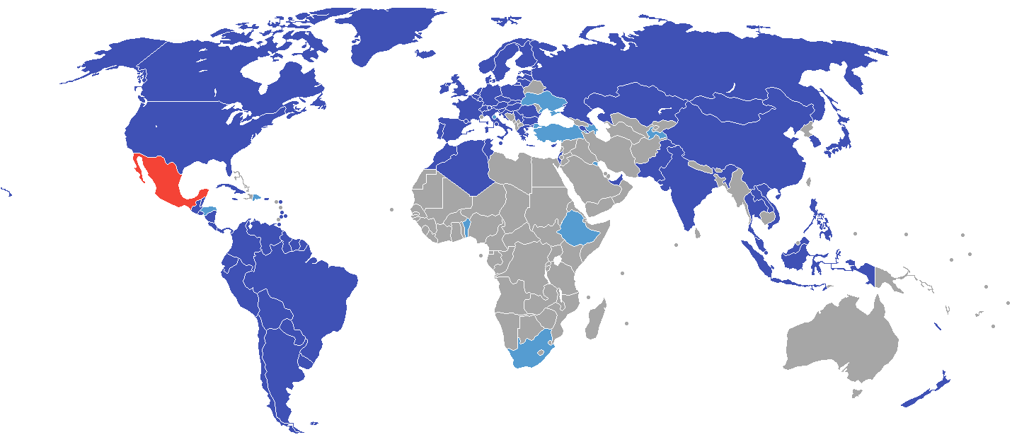 Visa policy of Mexico for holders of diplomatic or service category passports Mexico Visa free access for diplomatic and service category passports Visa free access for diplomatic passports